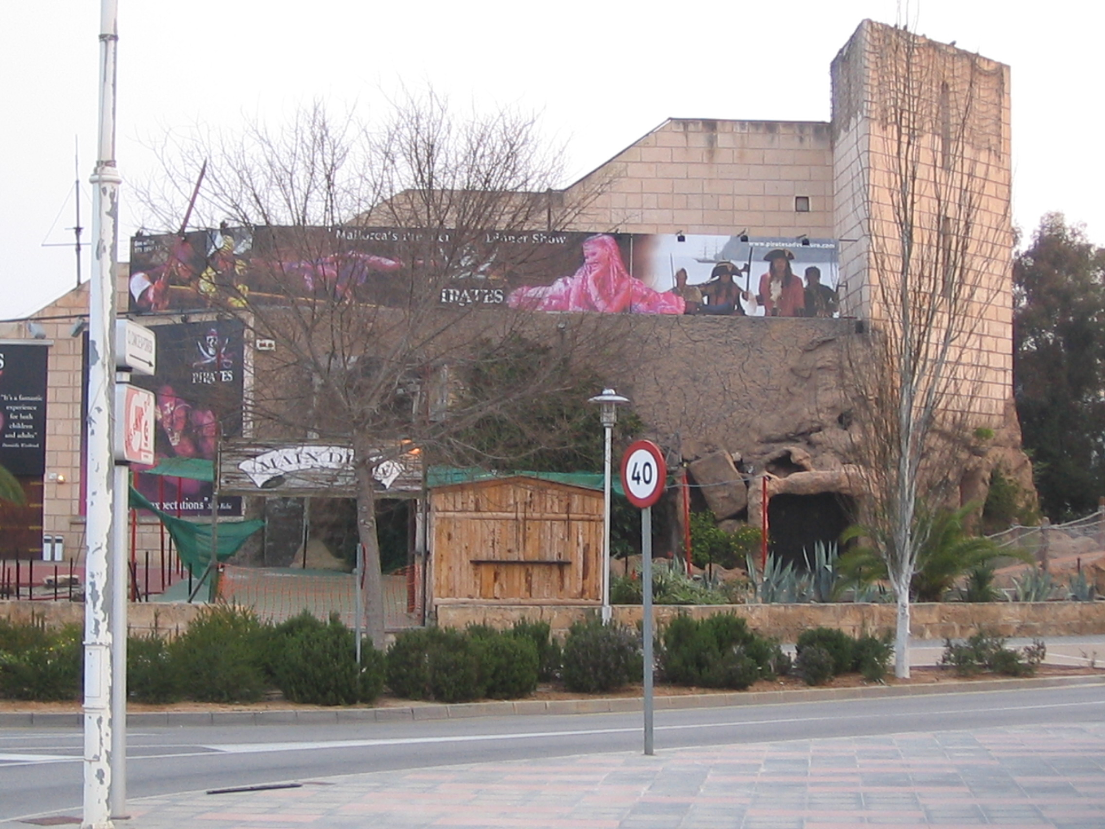 Pirates adventure of Magalluf, Mallorca, Spain